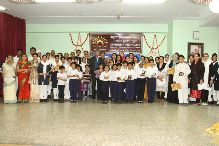 KV School Tehran